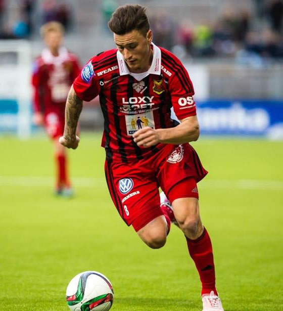 Hopcutt playing for Östersunds in 2015